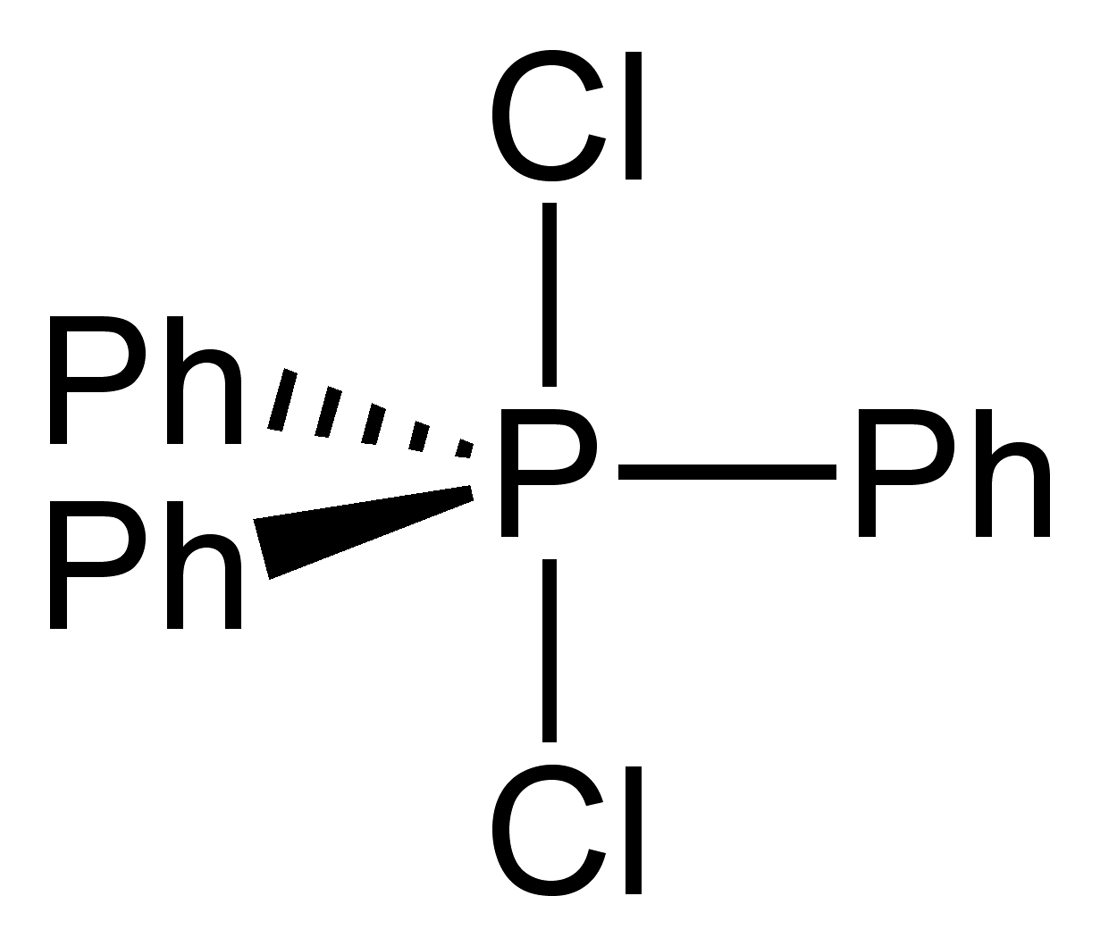 Structural formula of the triphenylphosphine dichloride molecule. X-ray crystallographic data from Chem. Commun., 1998, 921 - 922.